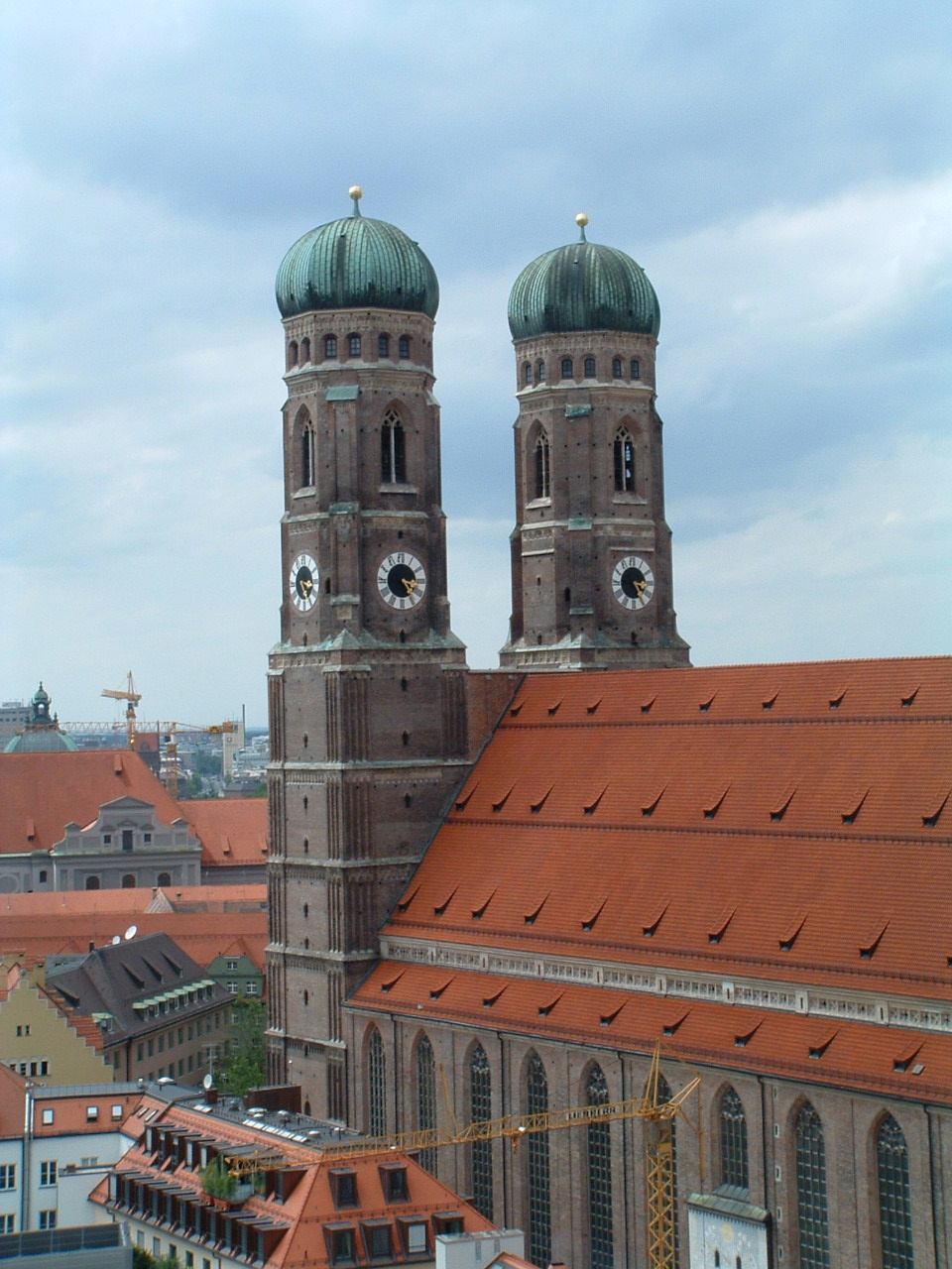 The Frauenkirche in Munich, Germany from the Town Hall.